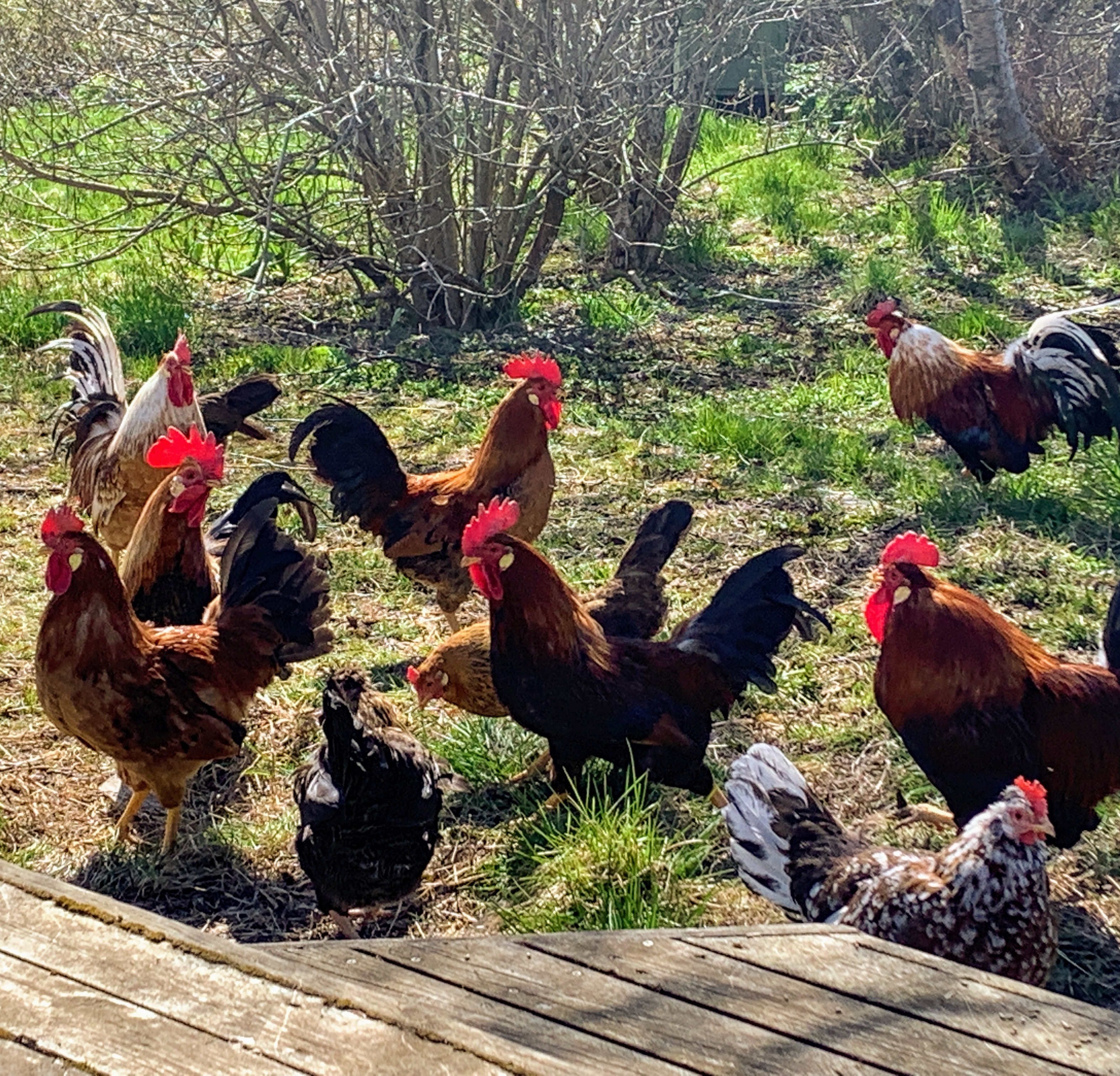 A flock of Icelandic settler hens and roosters